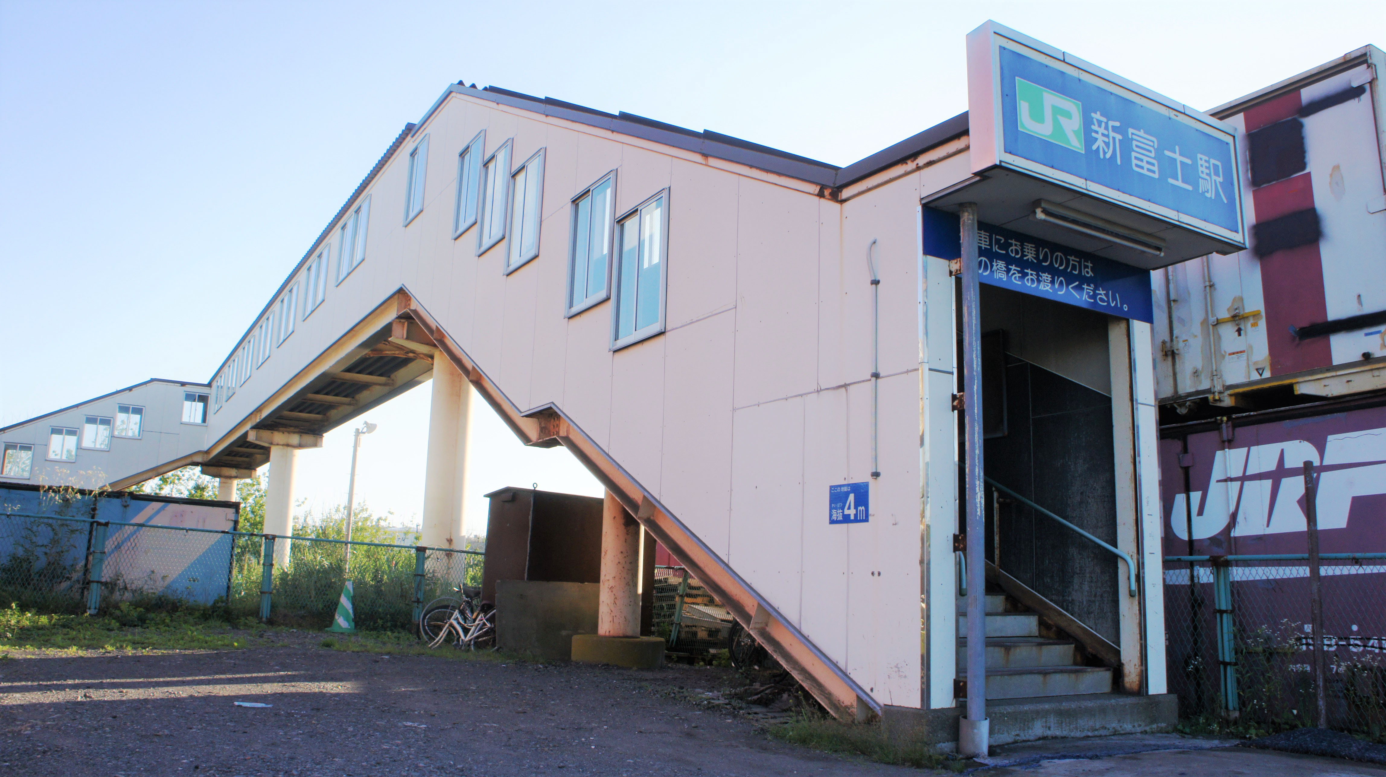 Gateway of JR Nemuro-Main-Line Shin-Fuji Station